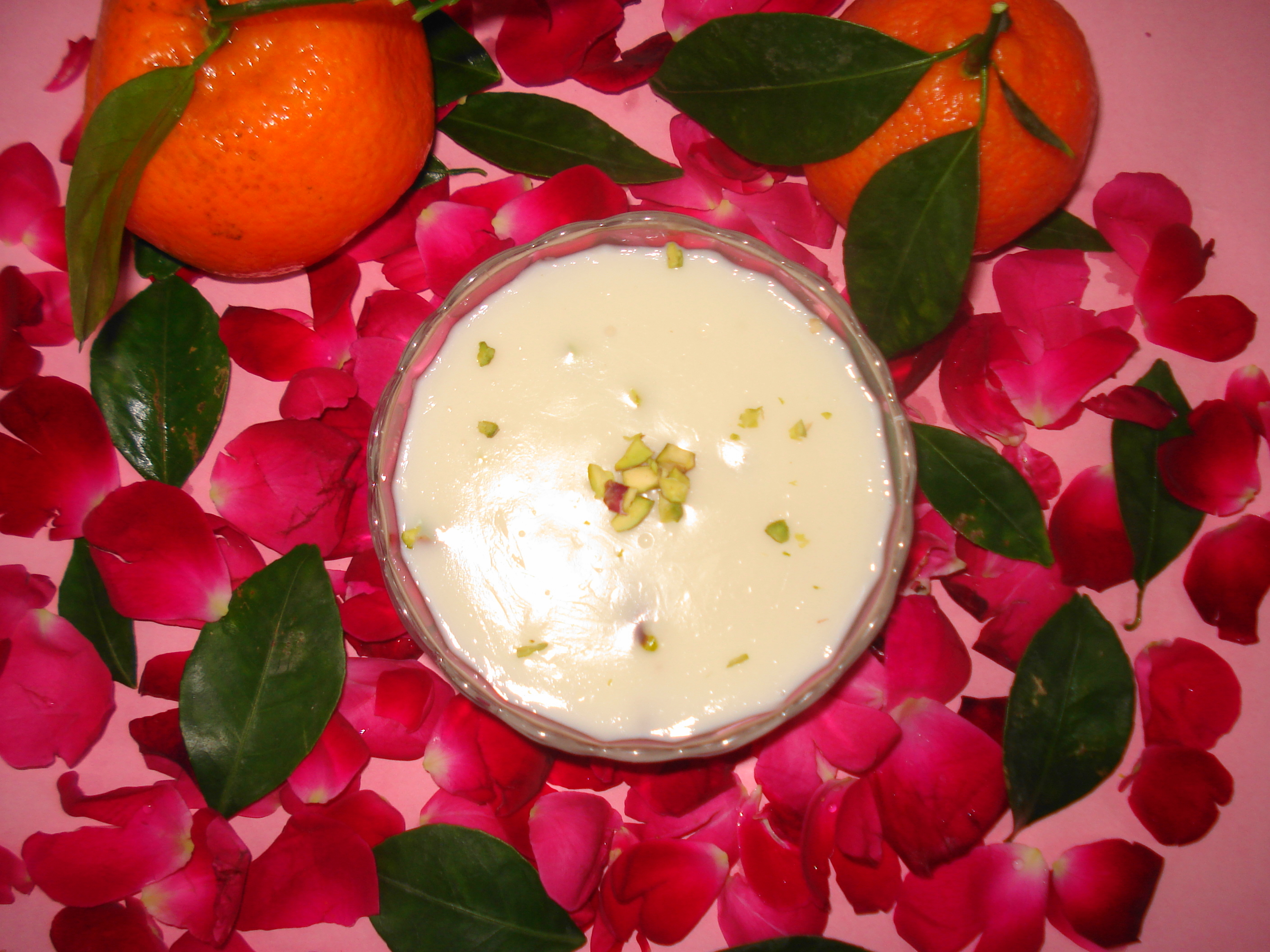 mahalabia